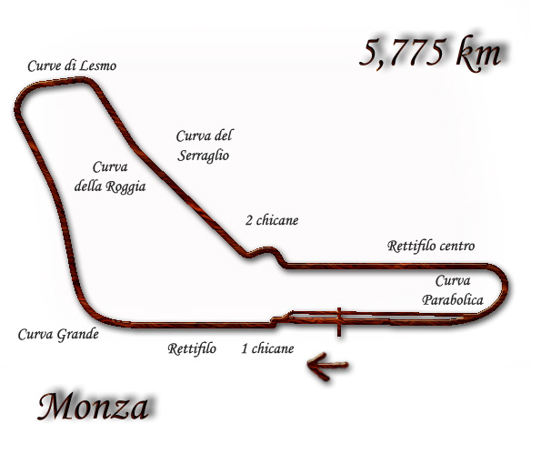 Grand Prix Italy Formula 1 /1972 - 1974/ Autor: Jiří Žemlička